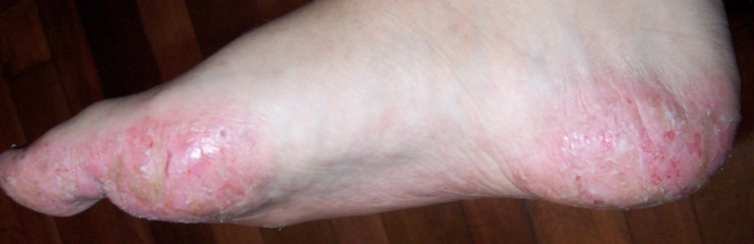 late stage of dyshidrosis on the foot